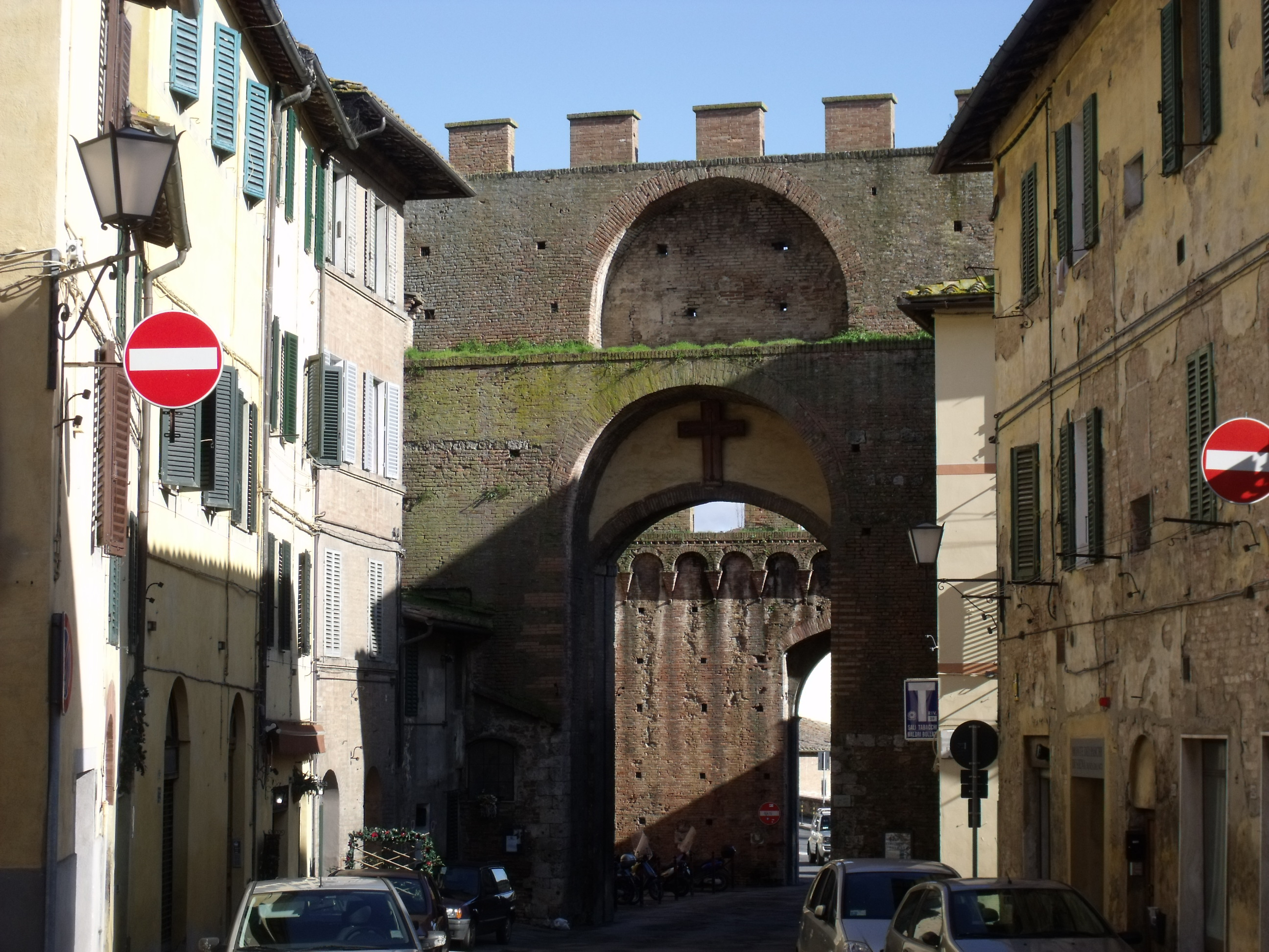 City Gate Porta Ovile in Siena seen from the inside.